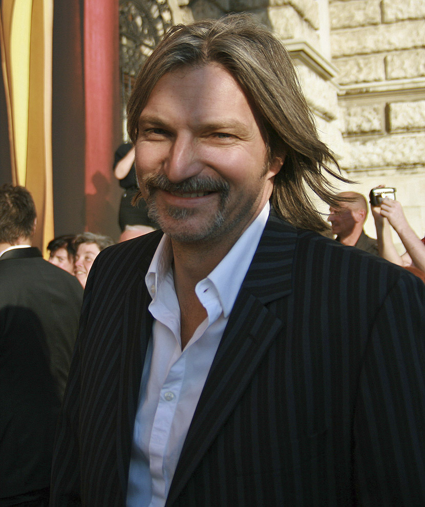 Stefan Jürgens at the Romy TV awards (Hofburg Imperial Palace in Vienna)